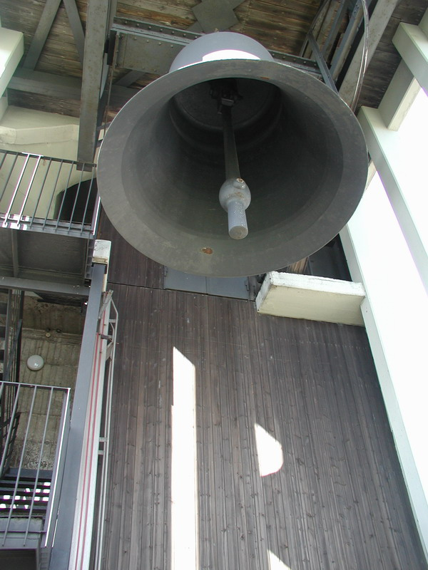 The bell of the bell tower of Berlin's Olympic stadion